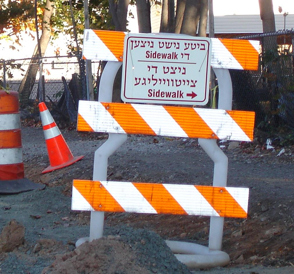 A road sign in Yiddish at a construction site in Monsey, NY.